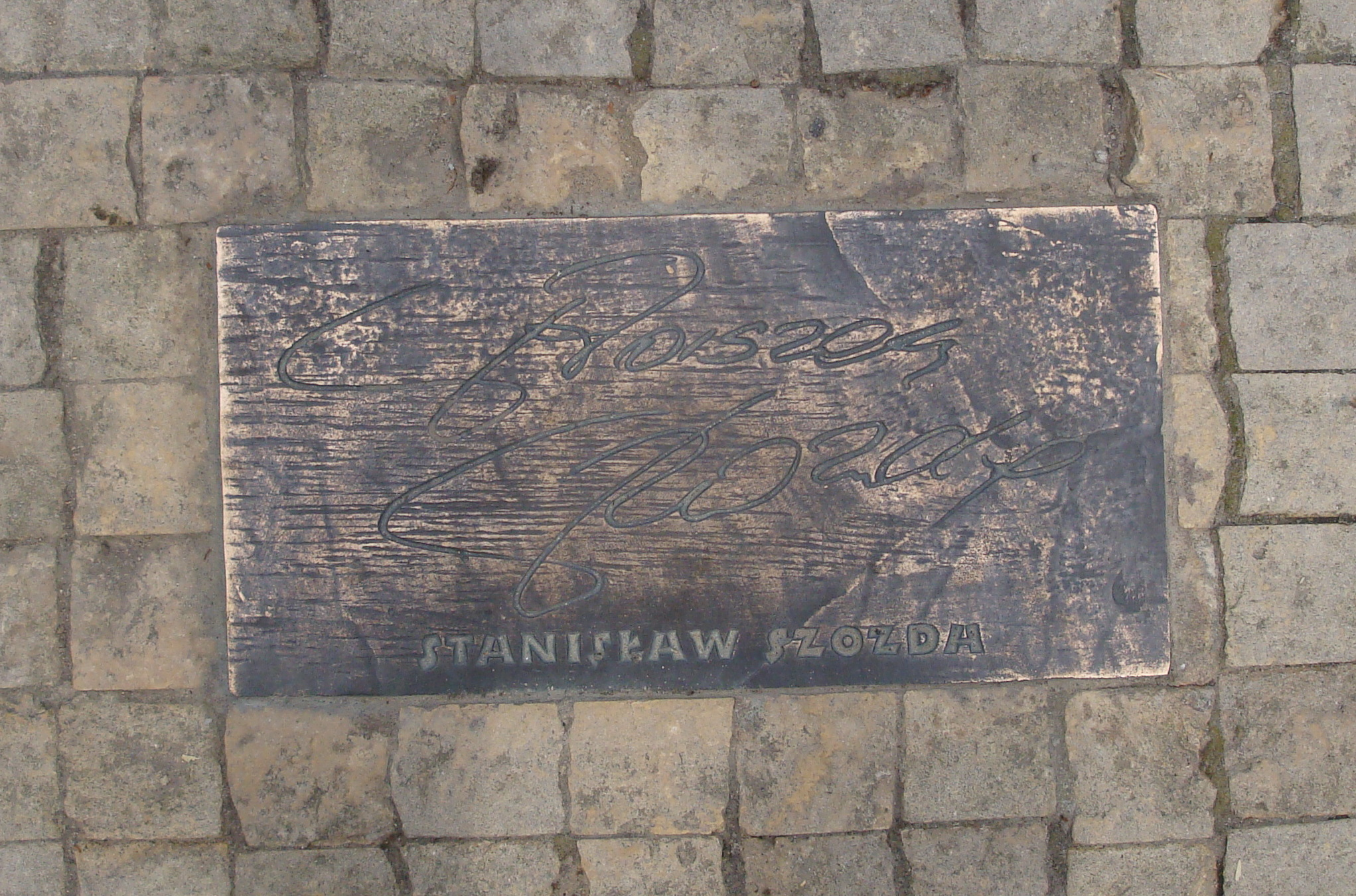 Polish Cycling Walk of Fame in Nałęczów, Poland. Signature of Stanislaw Szozda